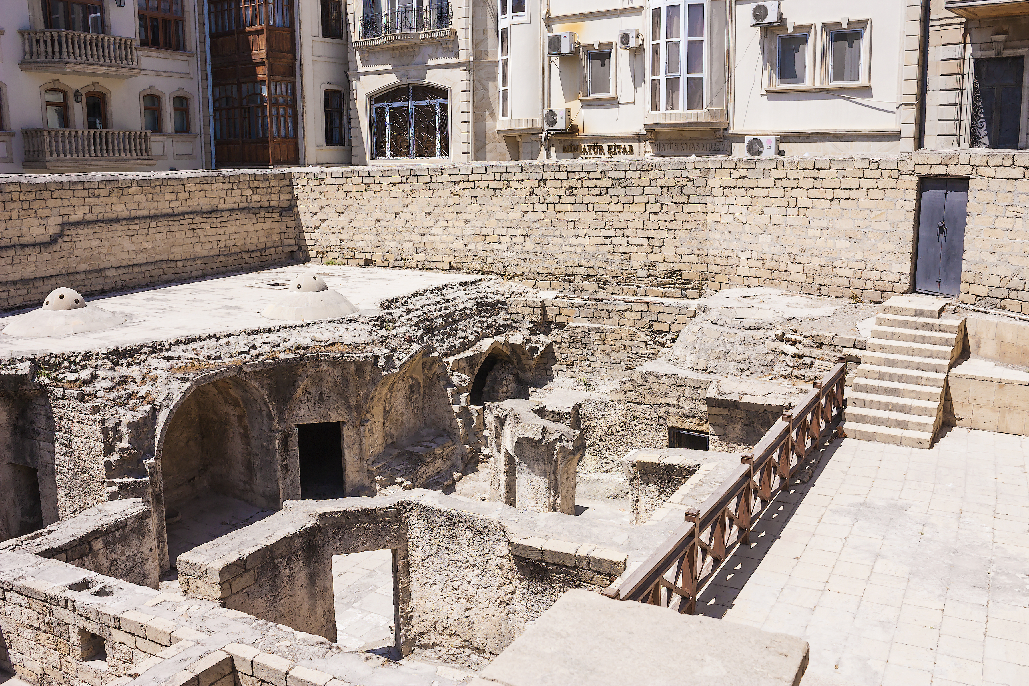 The Palace of the Shirvanshahs (Ruins) “old city” architecture and urban development